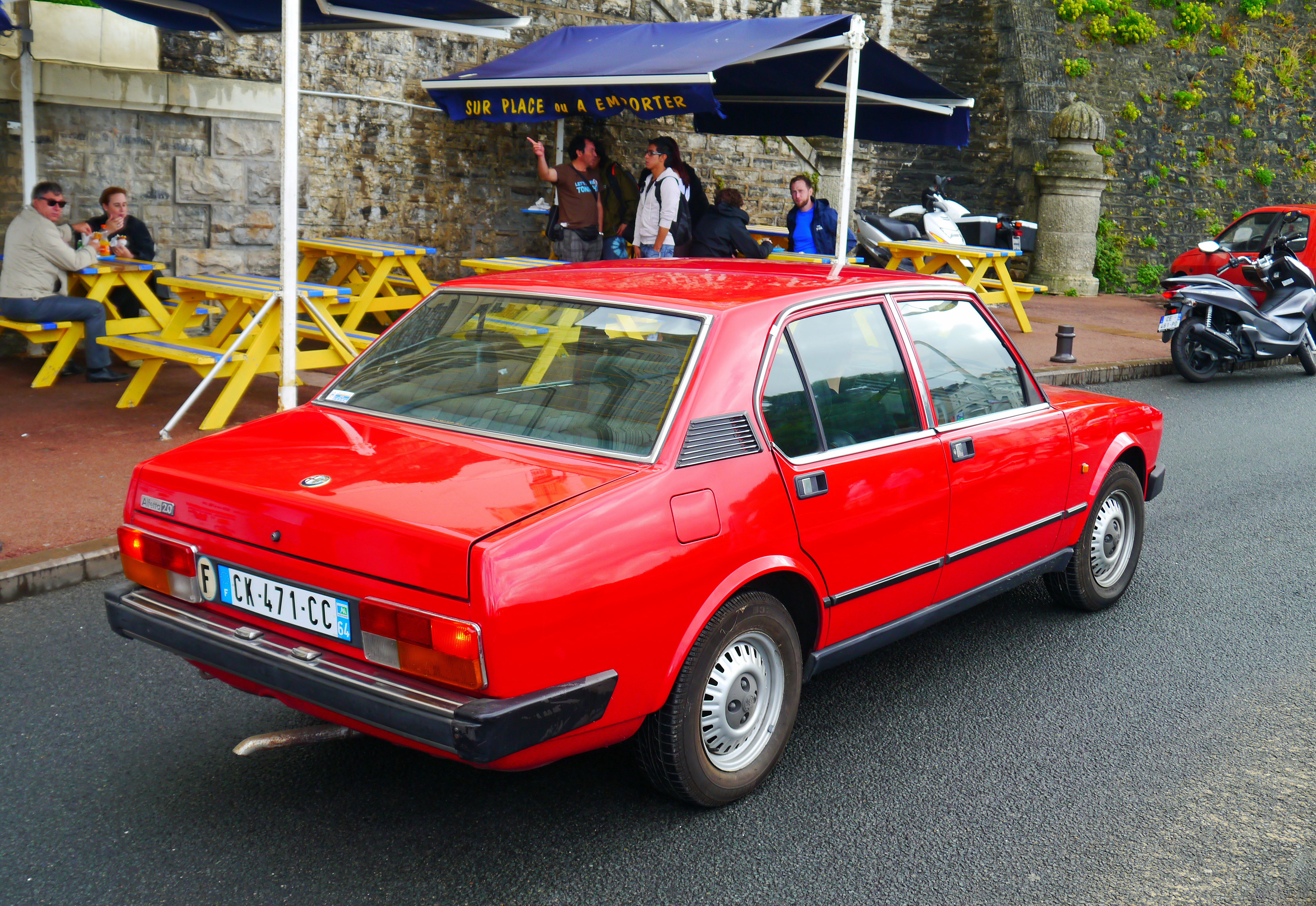 1981-1984 Alfa Romeo Alfetta 2.0 saloon - 2.0L injection (130 bhp).